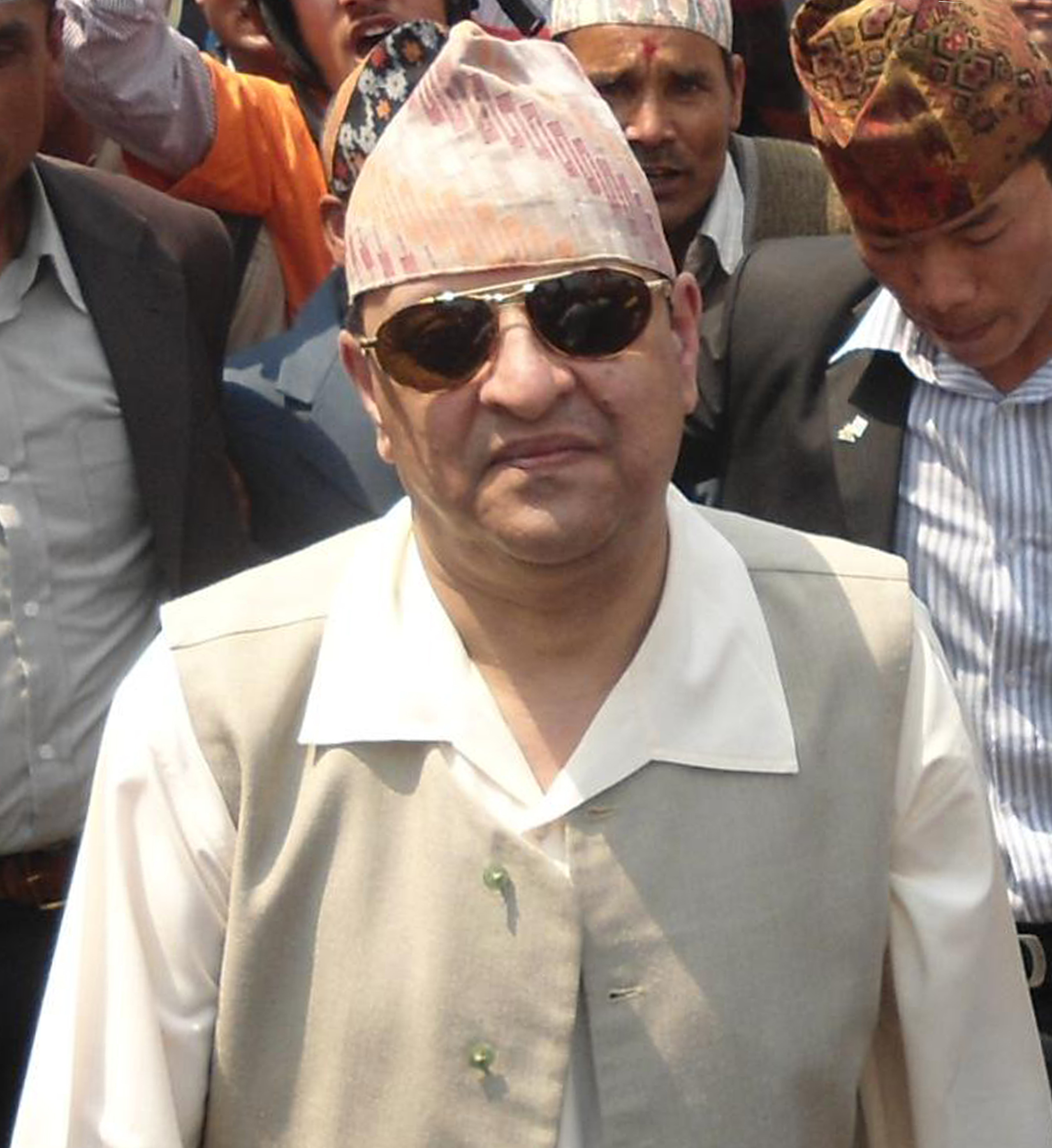 Former King of Nepal.